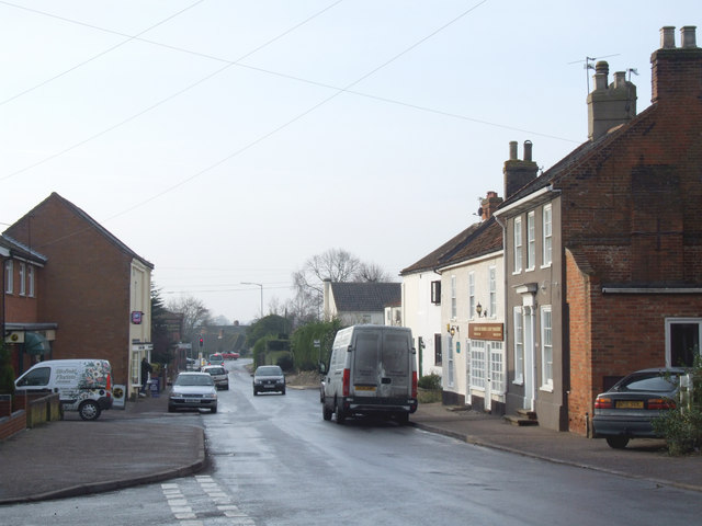 The Street, Blofield Taken from corner of Doctors Road and The Street.